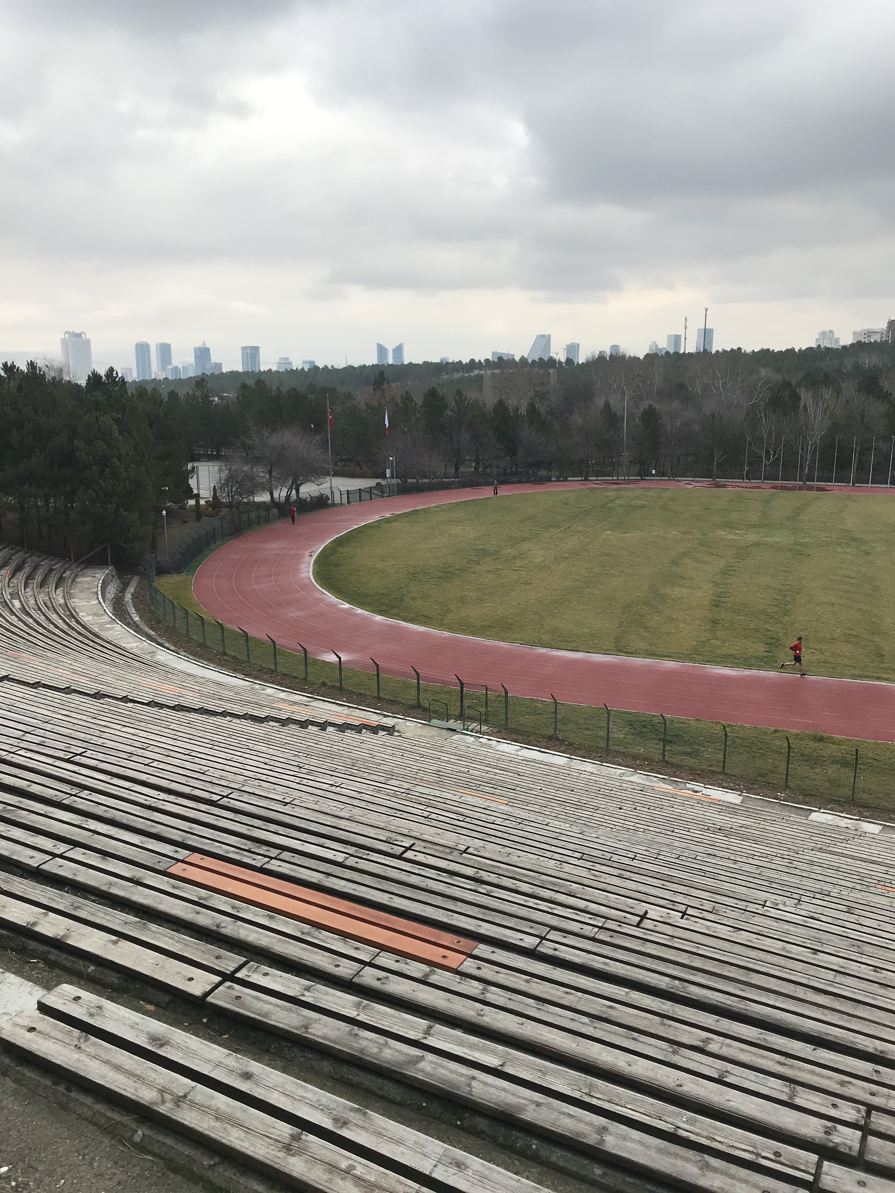 A view from the Devrim Stadium of METU